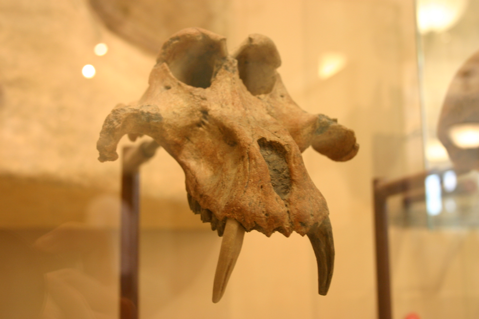 Theropithecus brumpti